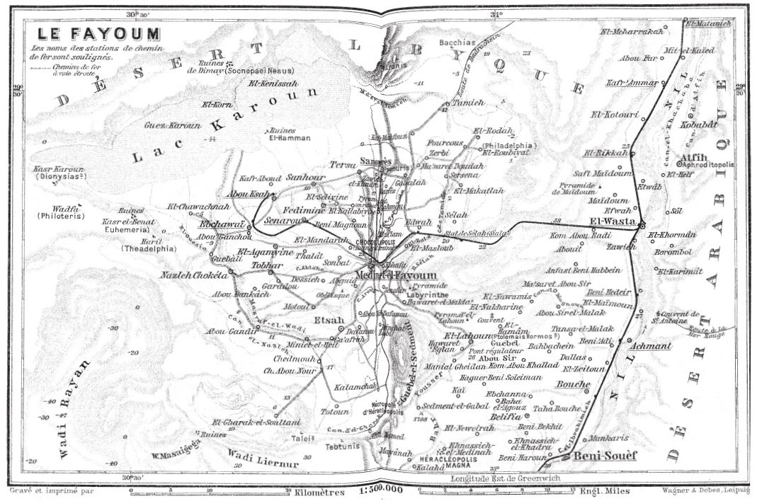 Network of the Fayoum Light Railway. Terrain map of the Fayum, Cairo off to the northeast. Reproduced from Baedeker, 1908 by Vincent L. Morgan and Spencer G. Lucas in 2002